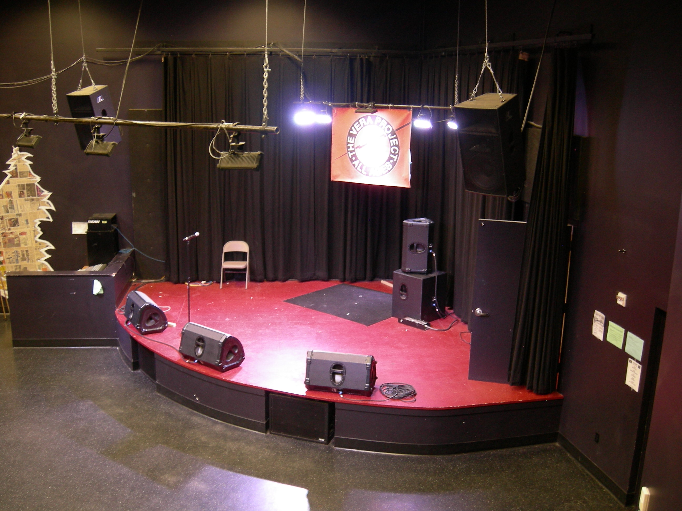 Main stage, The Vera Project space at Seattle Center, Seattle, Washington, seen from balcony. The Vera Project is an all-ages music and art center.